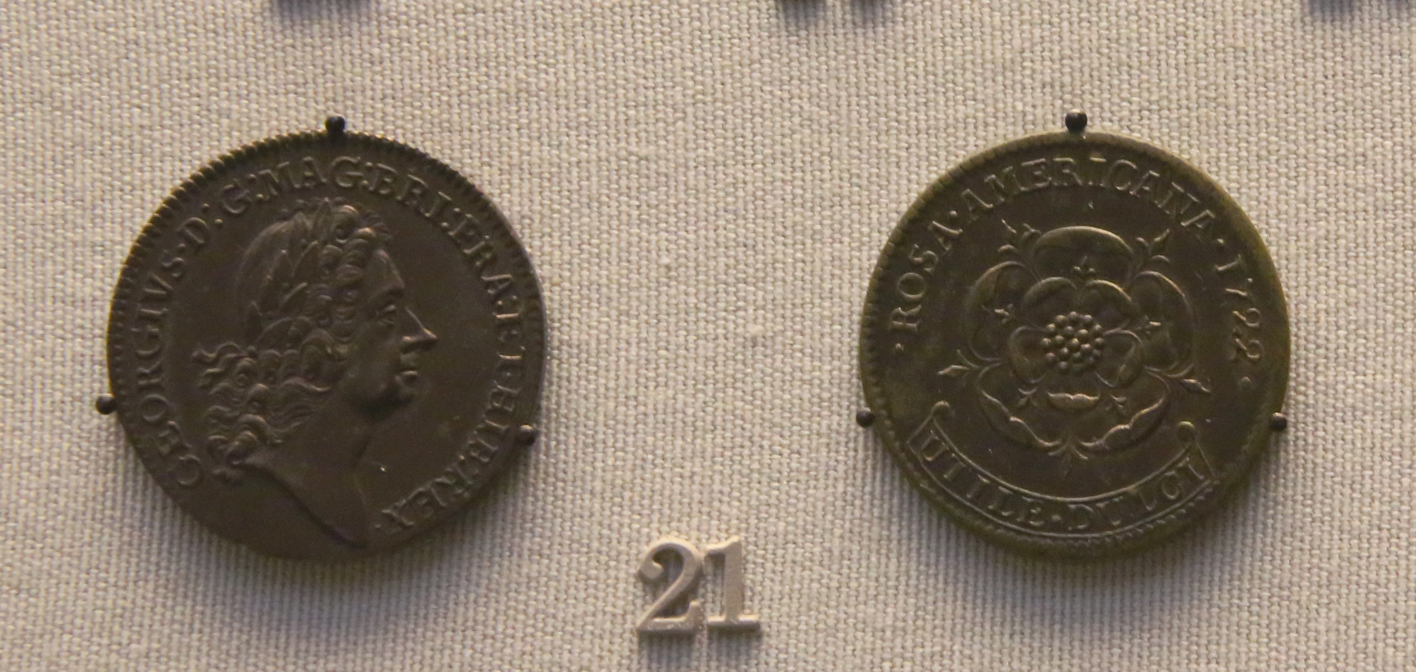 Photo of a two Rosa Americana halfpenny coins showing both sides. These coins were initially issued in the British colonies in America.